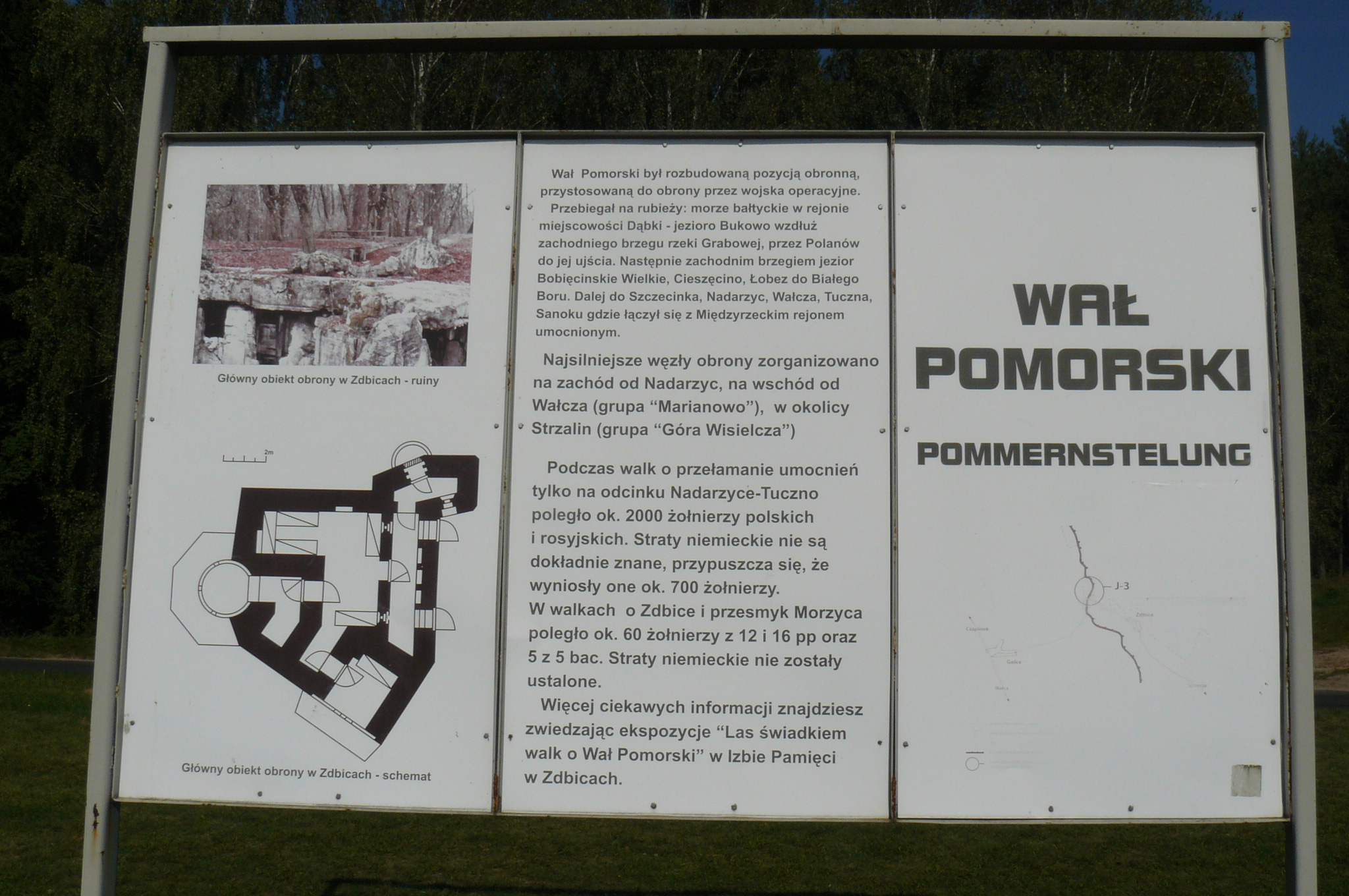 Remains of the open-air museum (WW2) - Zdbice.